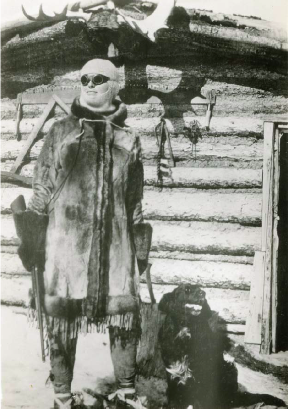 Kate Rice was a famed female prospector, trapper, musher, and adventurer who worked in Northern Manitoba from 1914 to the 1960s.